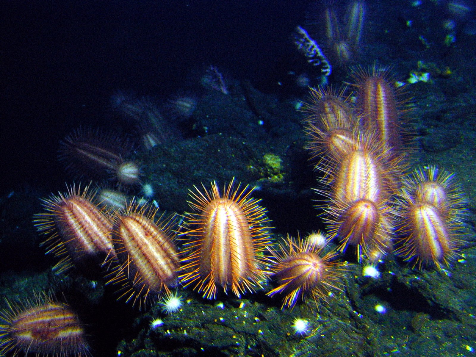 Deepsea urchins (reminiscent of cacti) grow on the lavas at Rumble V volcano. This is the first time that this species has been observed alive on the seafloor. New Zealand, Kermadec Arc.